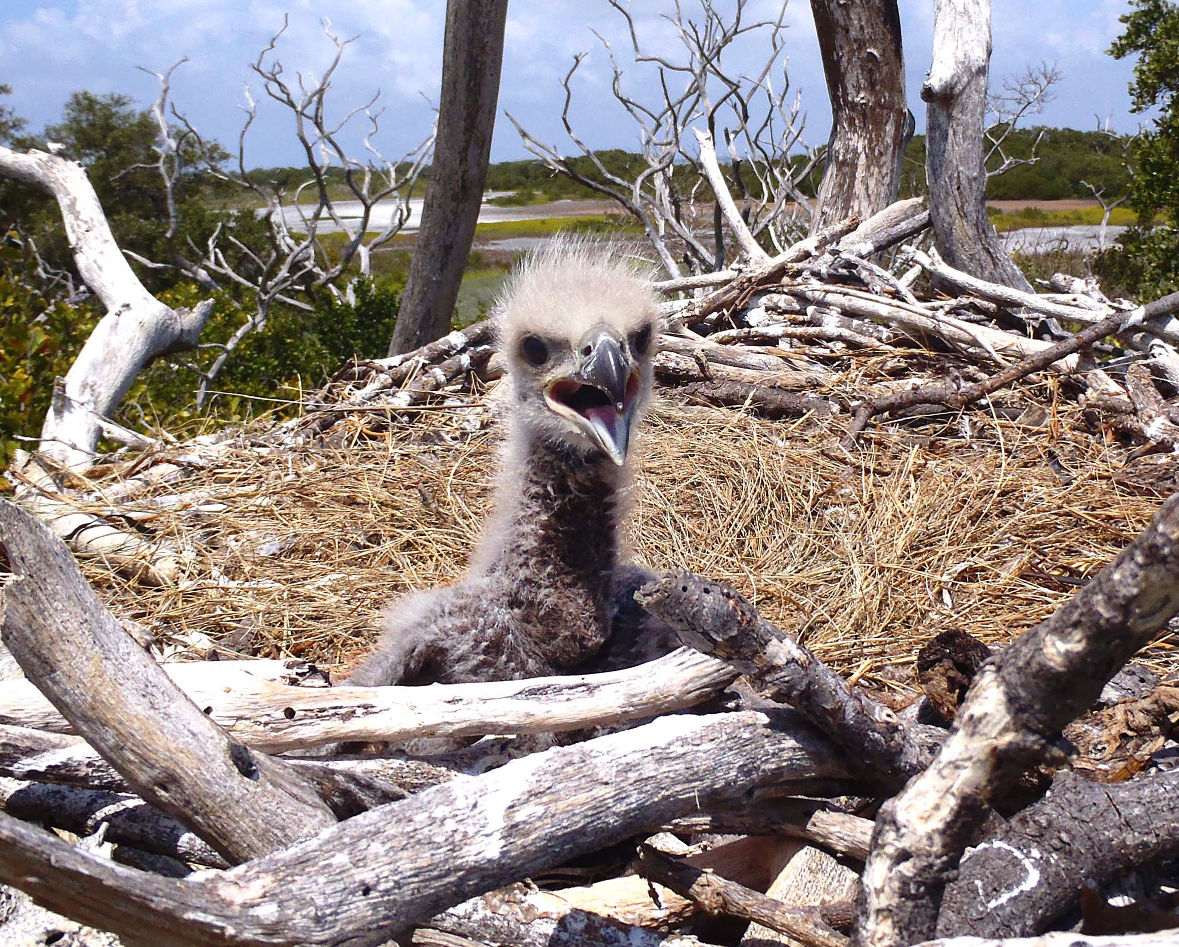 Bald Eagle Chick, NPSPhoto, Lori Oberhofner